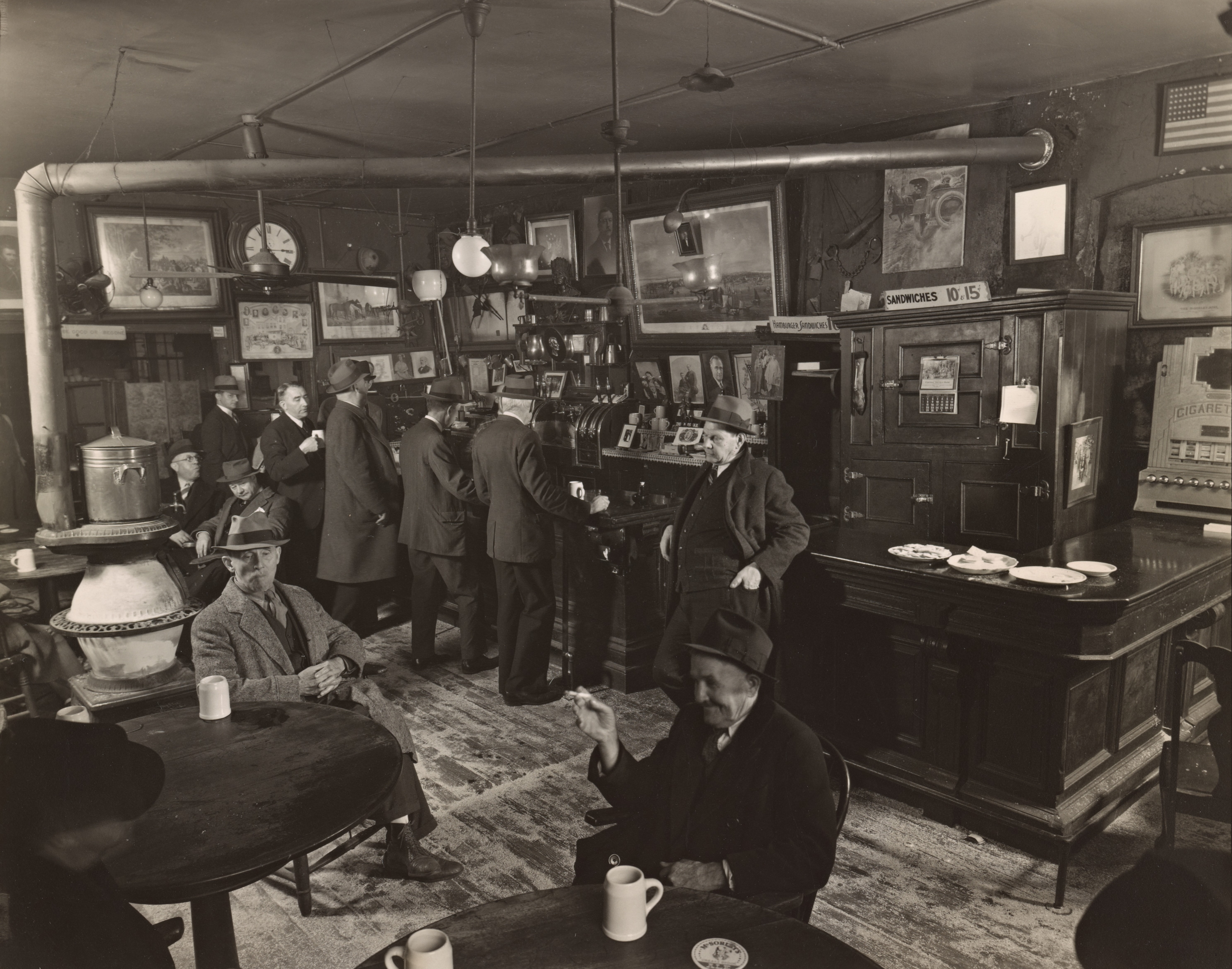 Men stand at bar, sit near stove in barroom, sawdust on the floor, pictures on the wall, food on bar near cigarette machine. Citation/Reference: CNY# 258